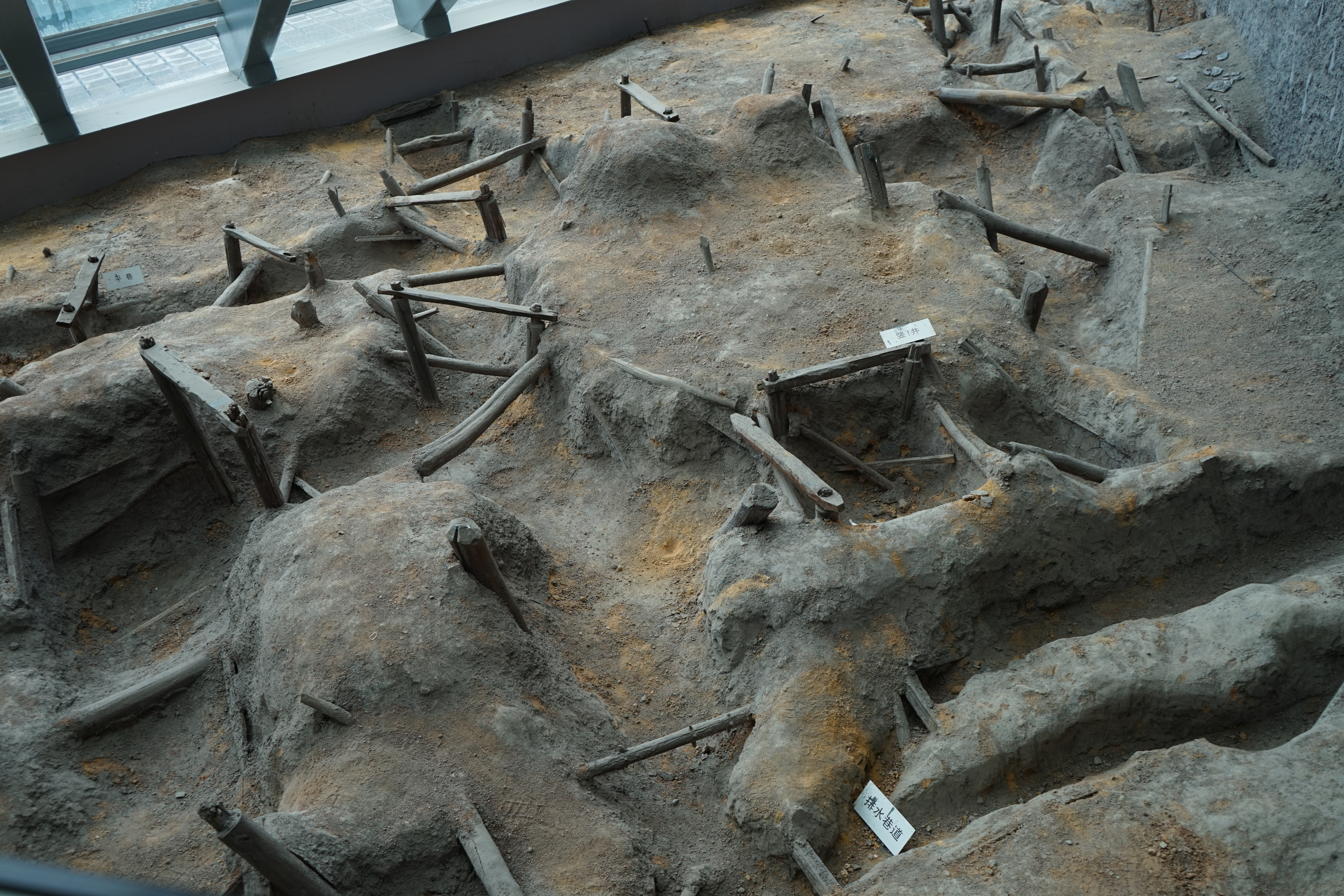 Partial Restoration of Spring and Autumn Period No.7 mining site in Tonglü Mountain. It has an area of 400 square meters, and was excavated in 1979 to 1980 by Archaeological Institute of Chinese Academy of Social Sciences. More than 60 vertical shafts, blind wells, and more than 20 lanes平巷 and drifts斜巷, as well as a drainage tunnel were unearthed. Many mining insturments were also discovered.